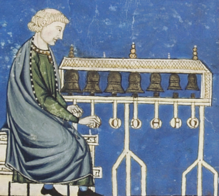 A bell player, illustrating Cantiga 400 of the Cantigas de Santa Maria